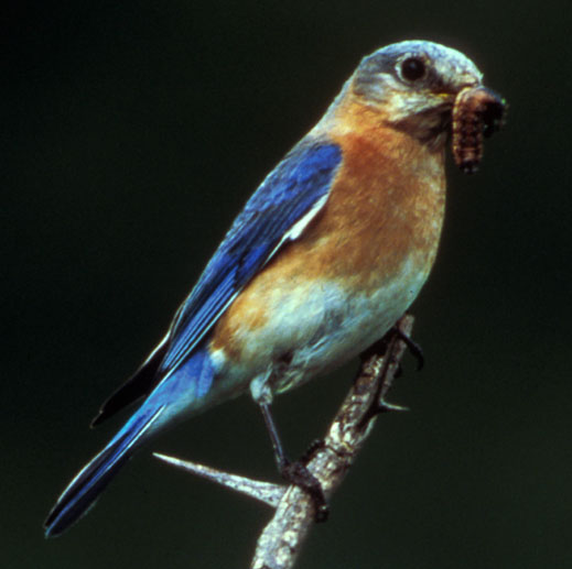 Eastern Bluebird